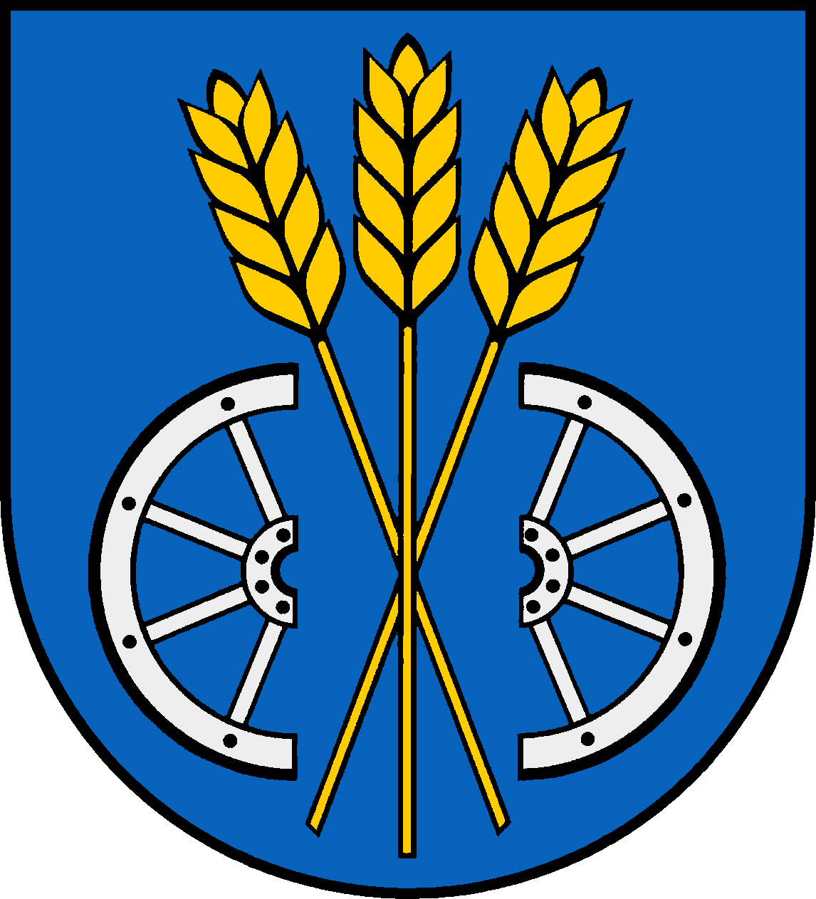 Coat of arms of the municipality Klein Rönnau in Schleswig-Holstein, Germany.